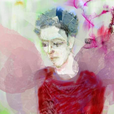 retrato hugo foigelman